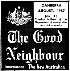 Logo of The Good Neighbour newspaper